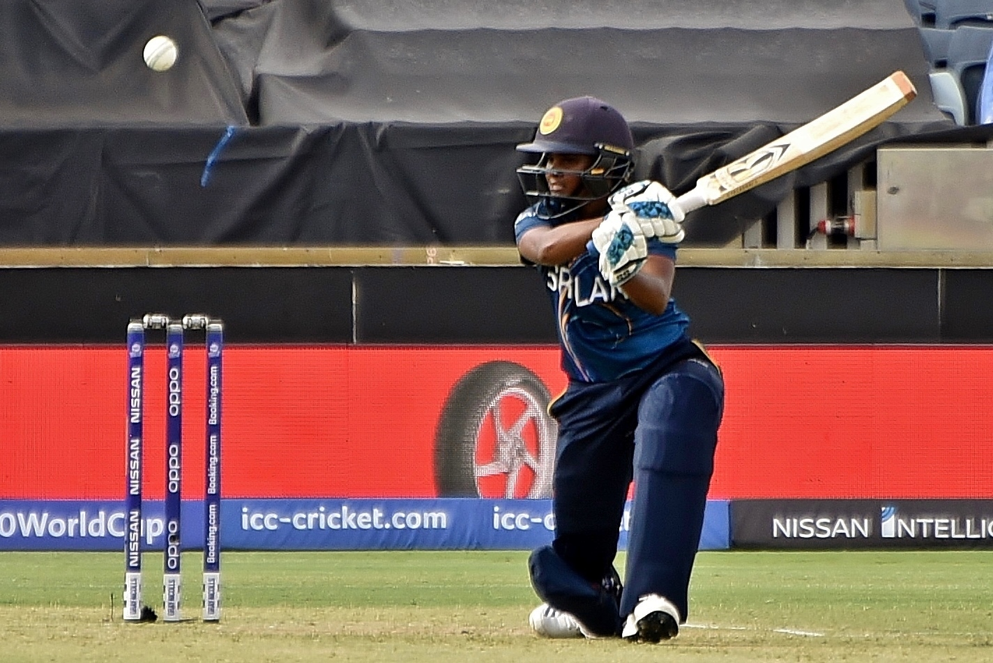 Anushka Sanjeewani batting for Sri Lanka against Australia during their 2020 ICC Women's T20 World Cup match at the WACA Ground in Perth, Australia